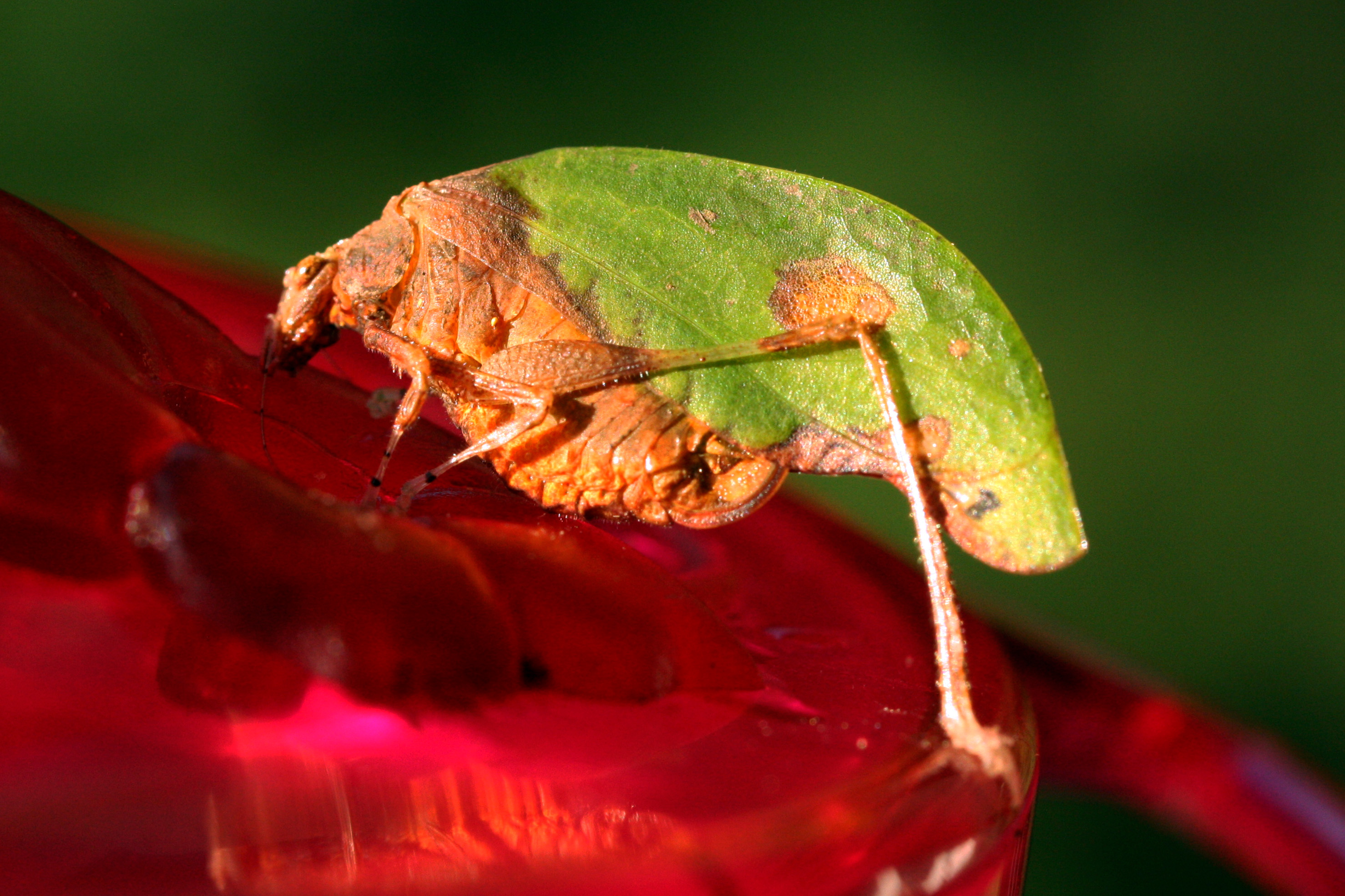 Leaf-mimic katydid (Pycnopalpa bicordata), Trinidad